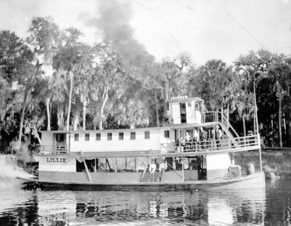 Steamboat "Lillie" of Kissimmee